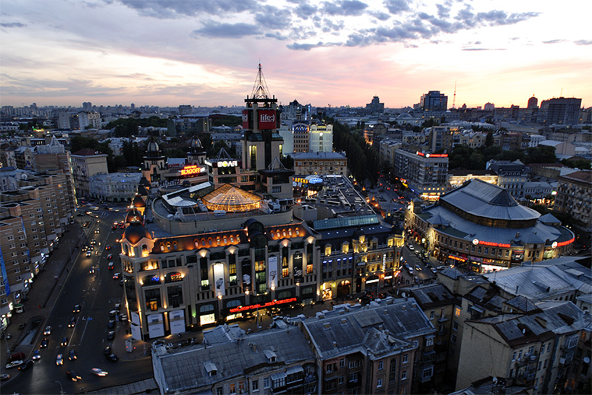 Kyiv at night